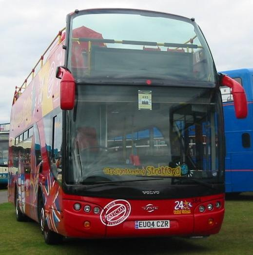 Ayats Bravo open top bus (cropped from original source image)